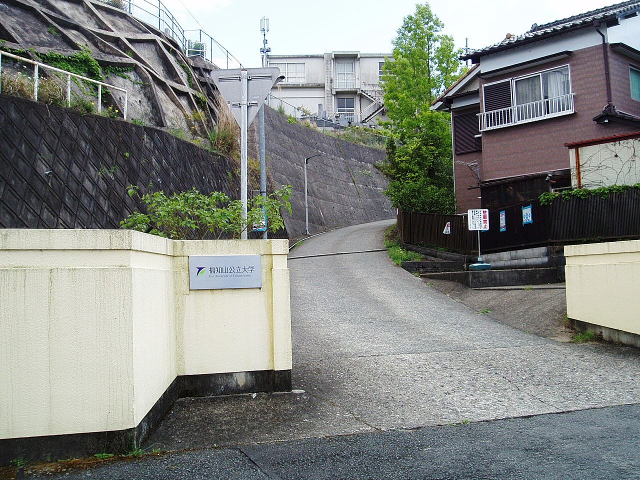 Main entrance to the University of Fukuchiyama located in Fukuchiyama, Kyoto, Japan.